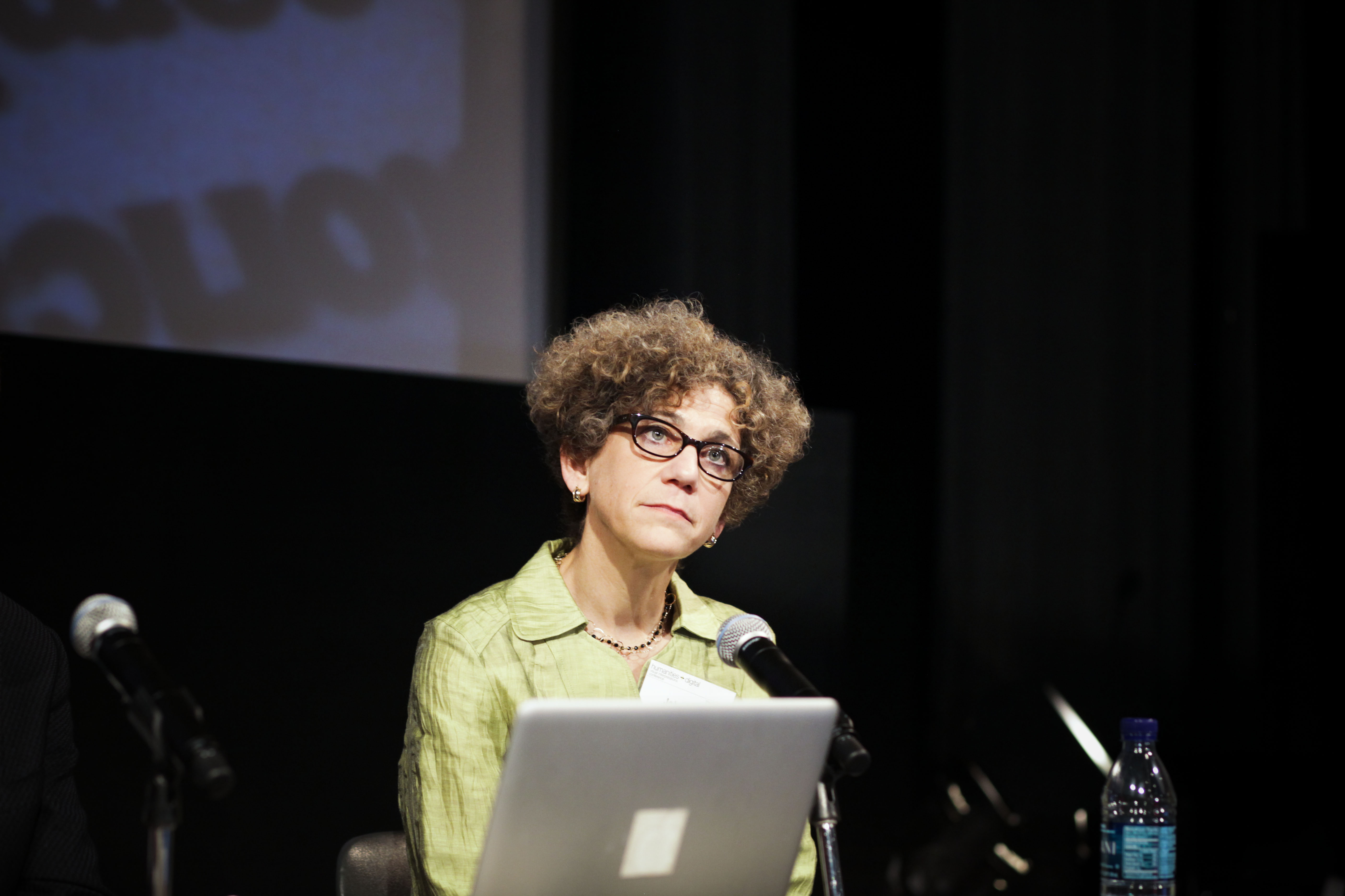 Photo of Johanna Drucker at HyperStudio's Visual Interpretations Conference @ MIT, May 20, 2010